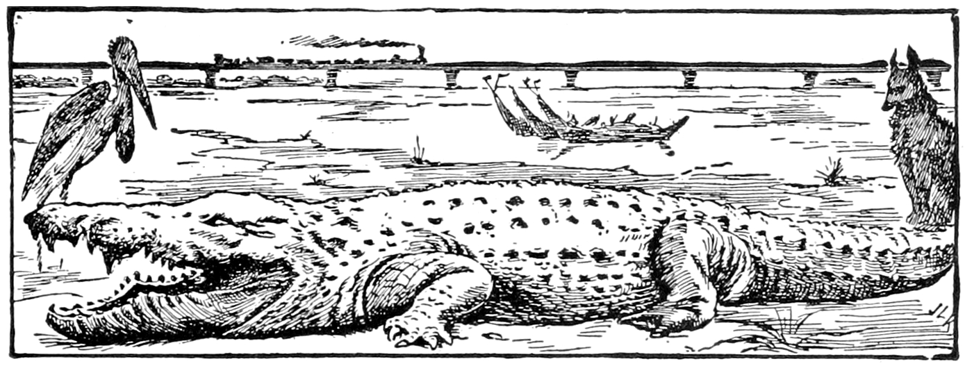 Title illustration of the chapter "The Undertakers"